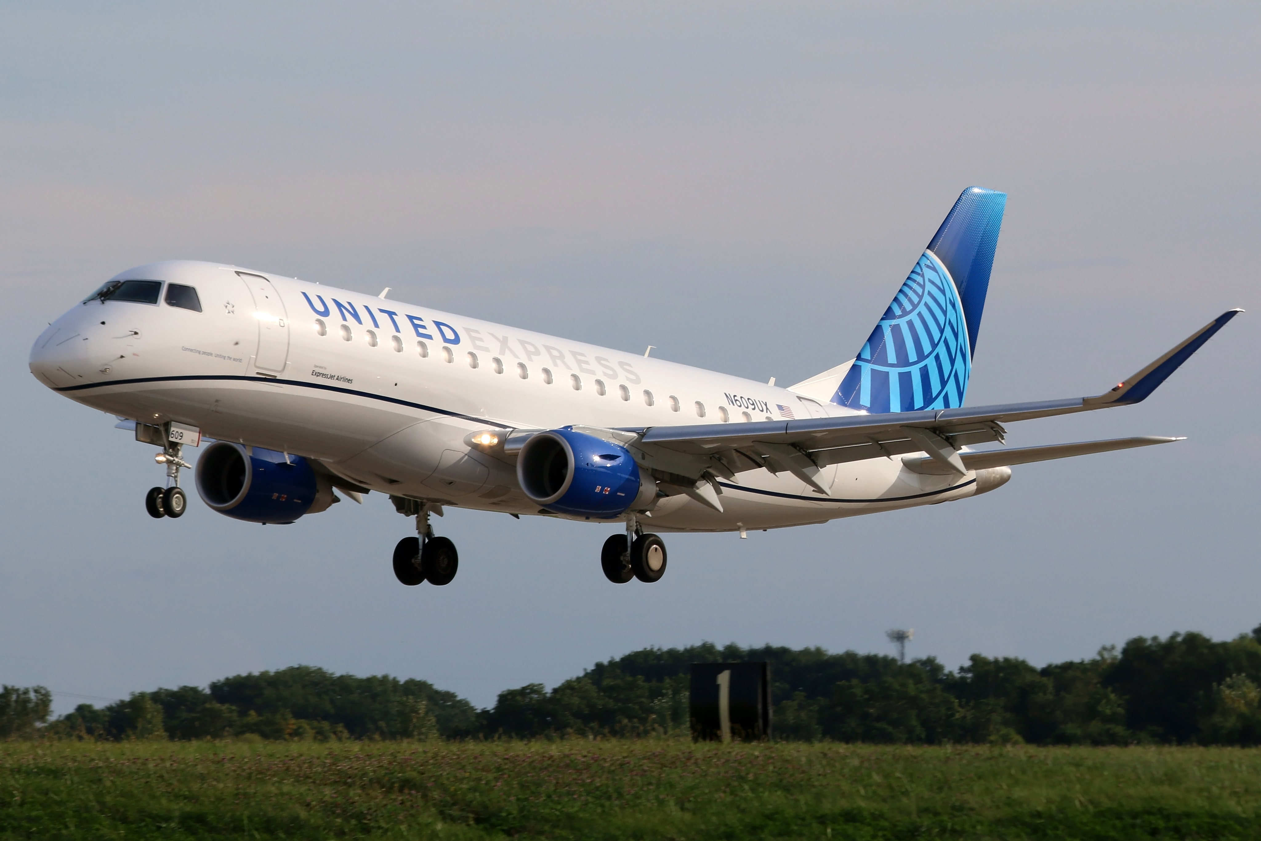 ERJ landing in Toronto, Canada